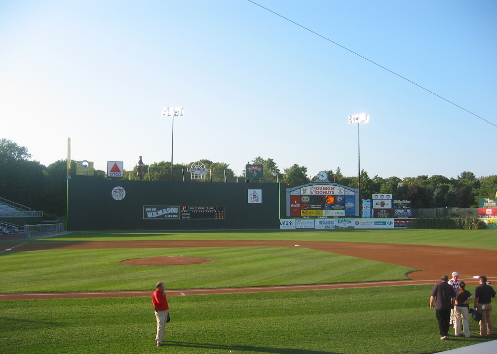 A view of the diamond, outfield, and the "Maine Monster" at Hadlock Field. 16:14, 31 August 2007 . . Dudesleeper . . 1,007×718 (213 KB)